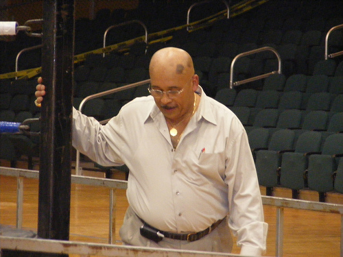 Professional wrestler Johnny Rodz at a WUW show in Albany on October 25, 2008